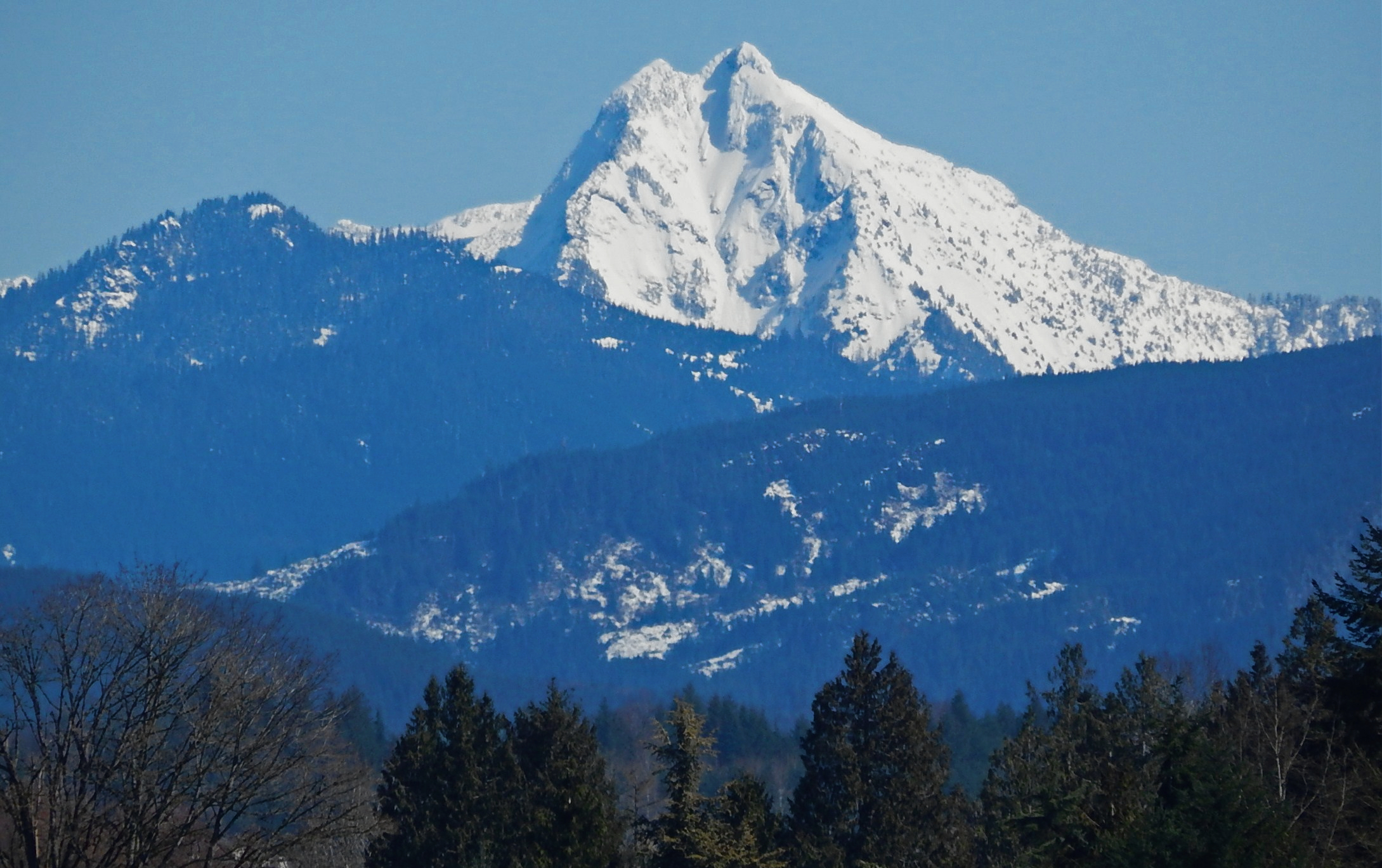 Liberty Mountain 5688 feet, seen from Lake Stevens WA